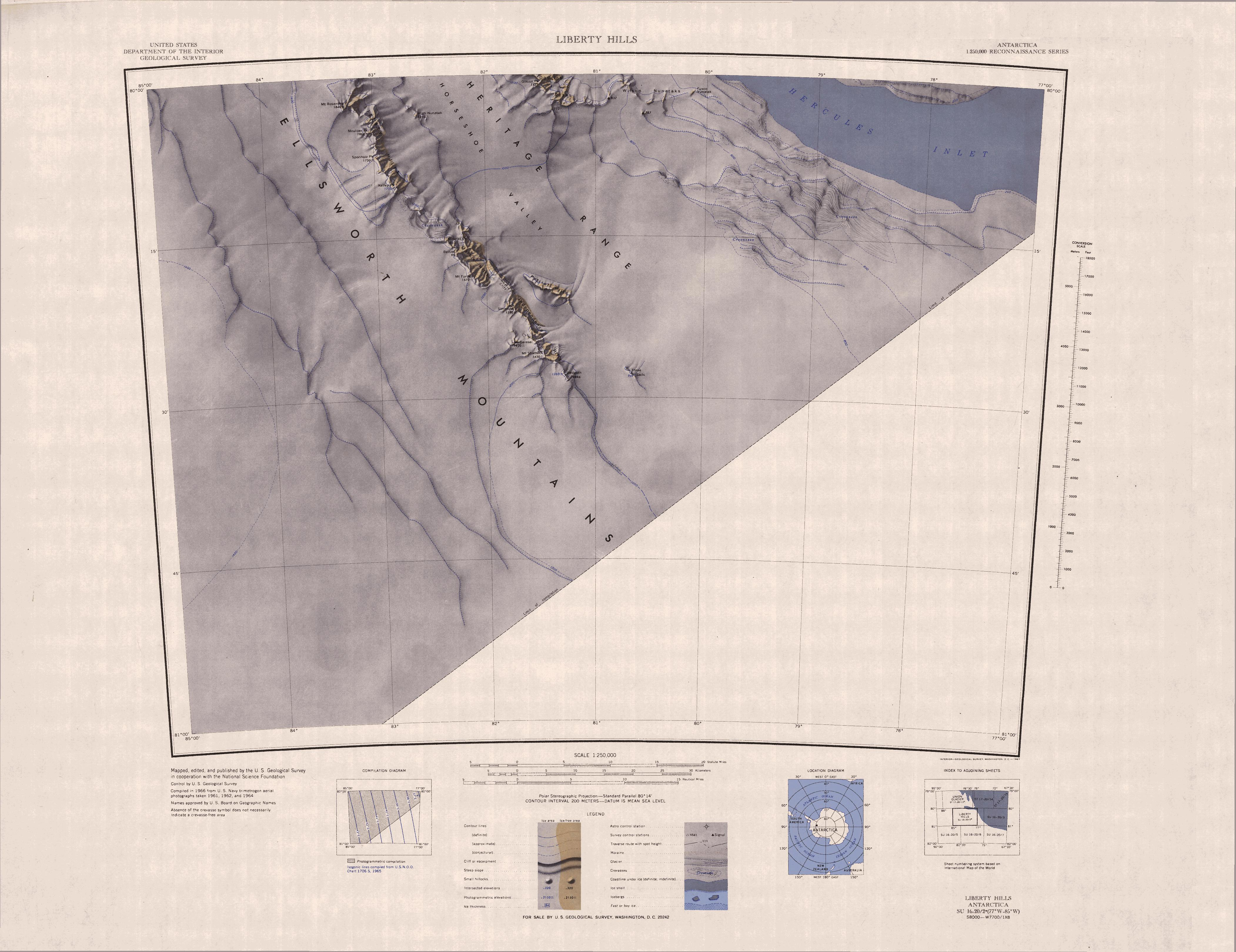 Map of southern Heritage Range in Ellsworth Mountains, Antarctica